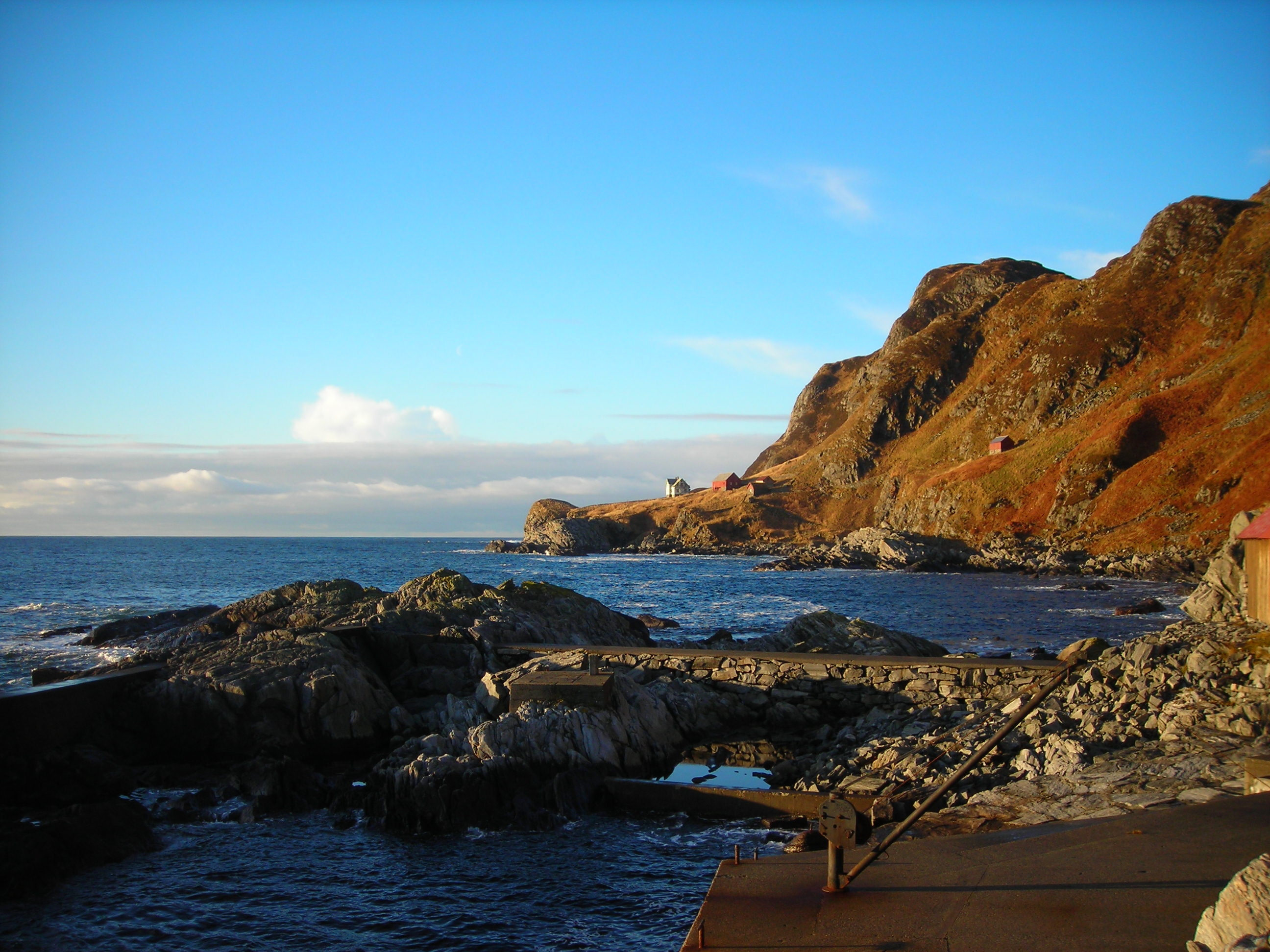 Ytre Fure